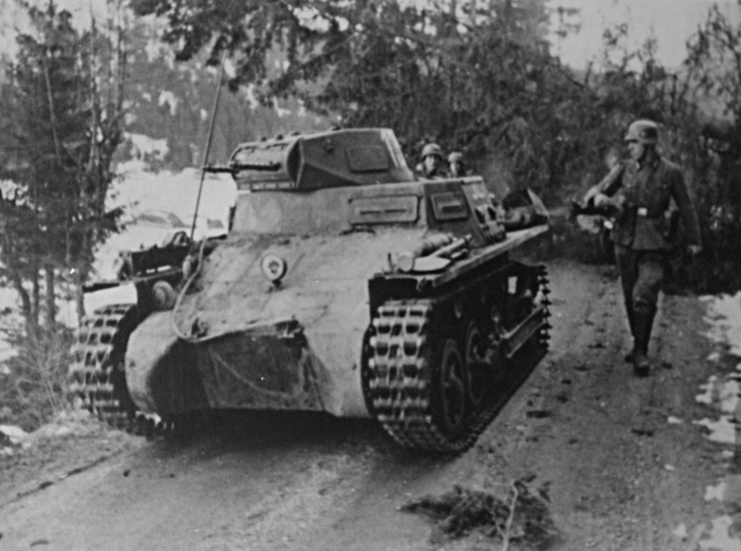 A german PzKpfw I A passing a norwegian roadblock at Bergsund south of Bagn in Sør-Aurdal, Norway, in the evening of 18. april 1940. See also Kampene langs Randsfjorden, i Ådalen og Valdres.